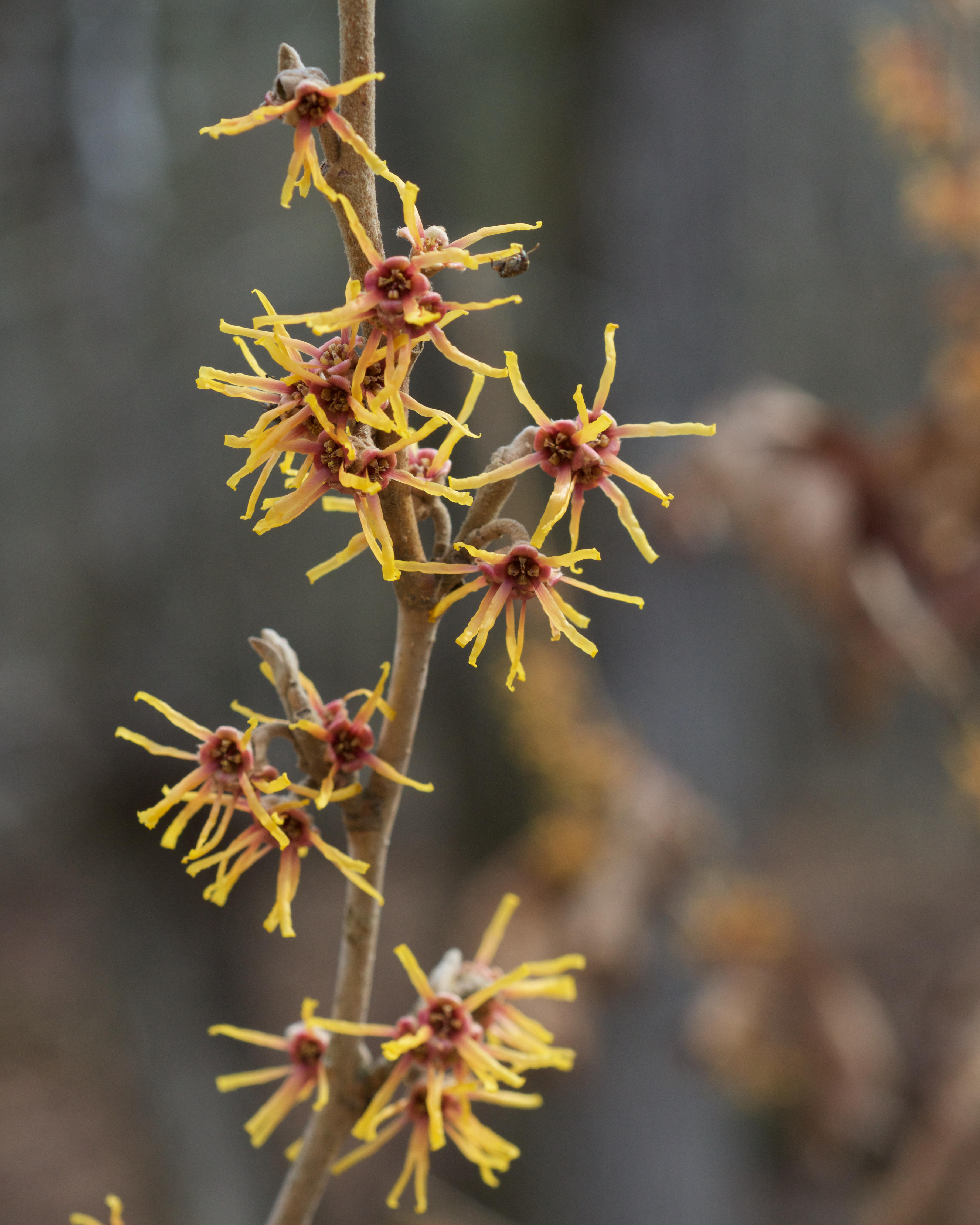 Species from Arkansas, Missouri, Texas, Oklahoma Common name: Ozark Witch Hazel Photographed along the North Sylamore Creek Trail, Ozark National Forest, Stone County, Arkansas